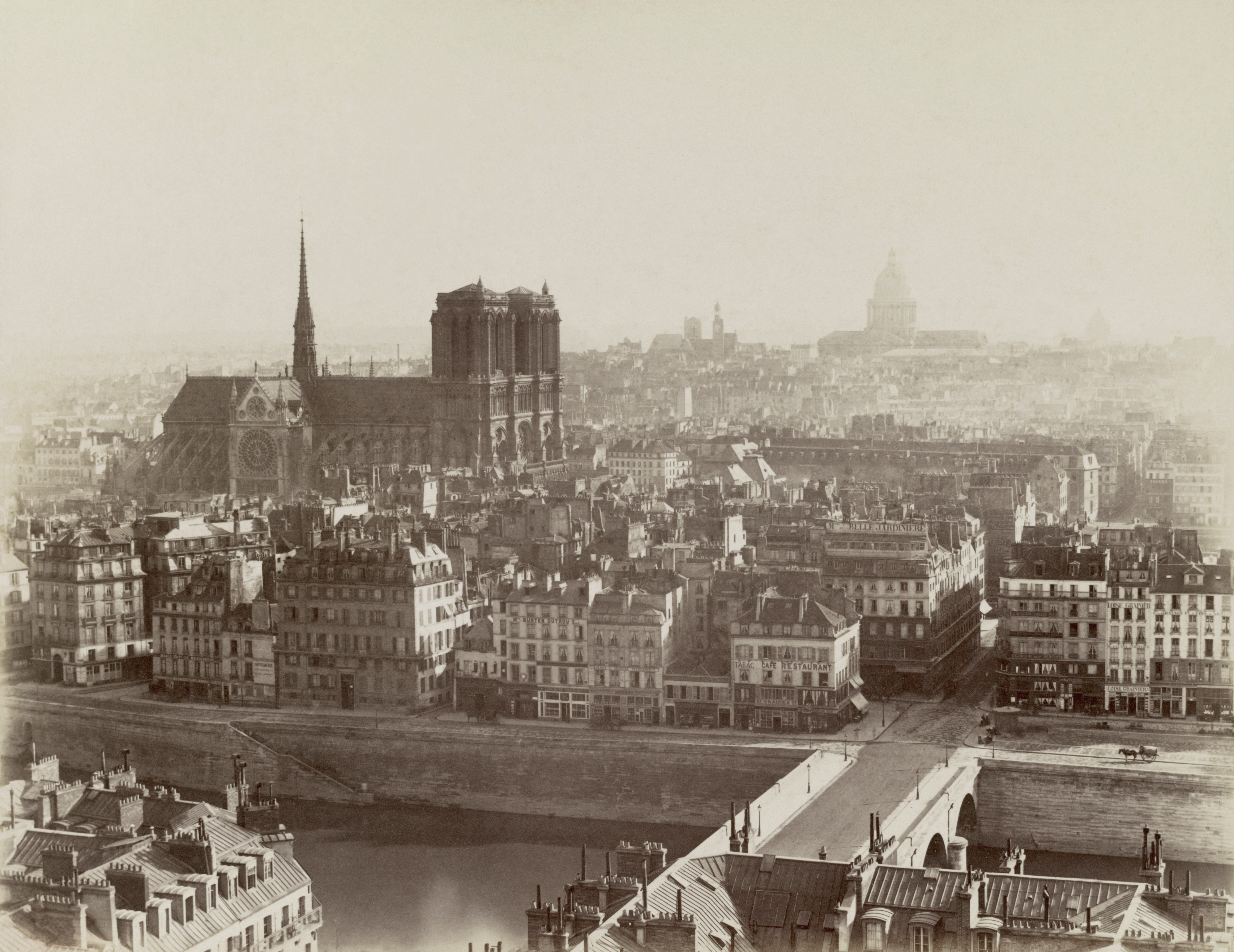 Photograph shows view of Notre-Dame de Paris rising above Ile de la Cité.